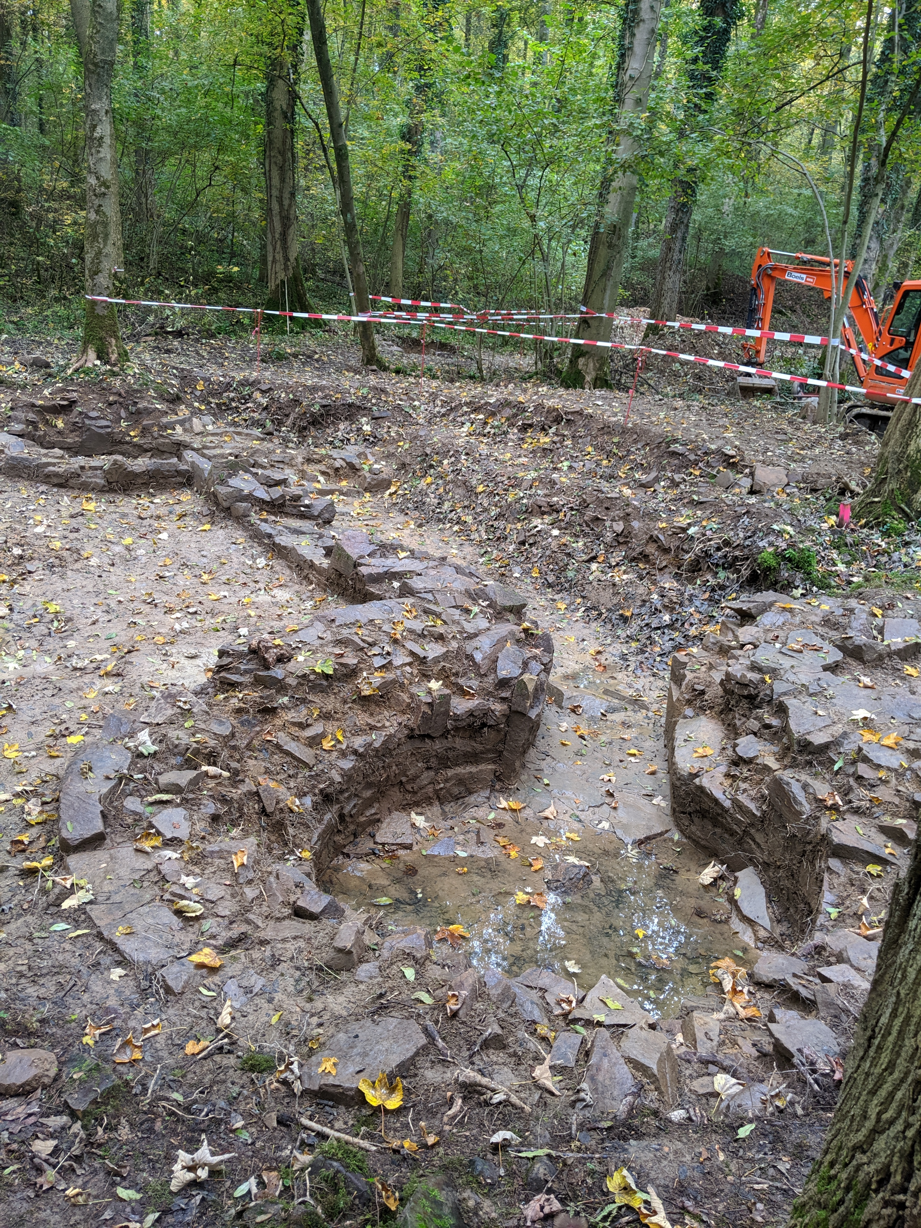 excavation